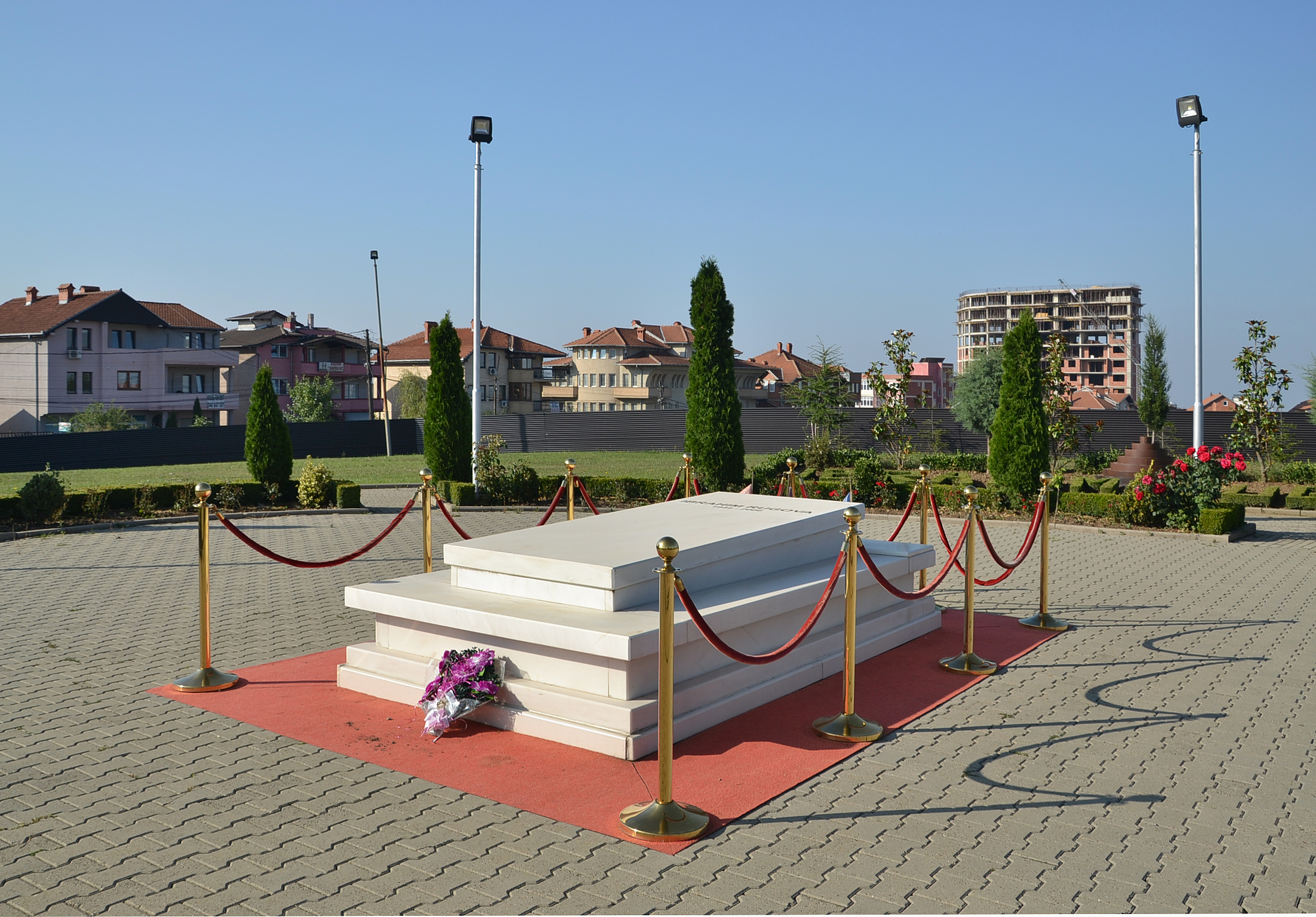 Pristina, Kosovo - Ibrahim Rugova tomb